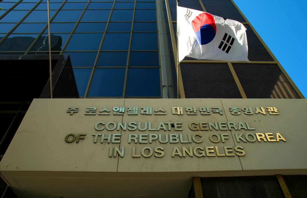 Consulate-General of South Korea in Los Angeles at 680 Wilshire Place